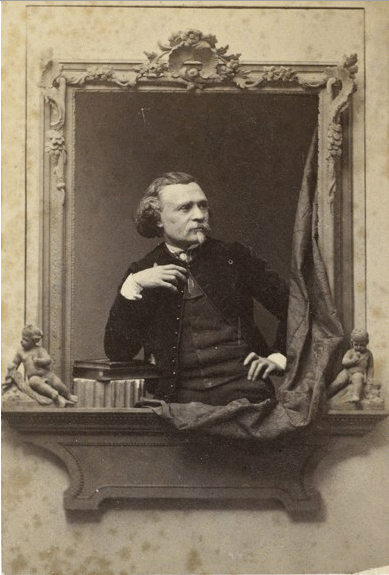 Portrait of Jean Raymond Hippolyte Lazerges